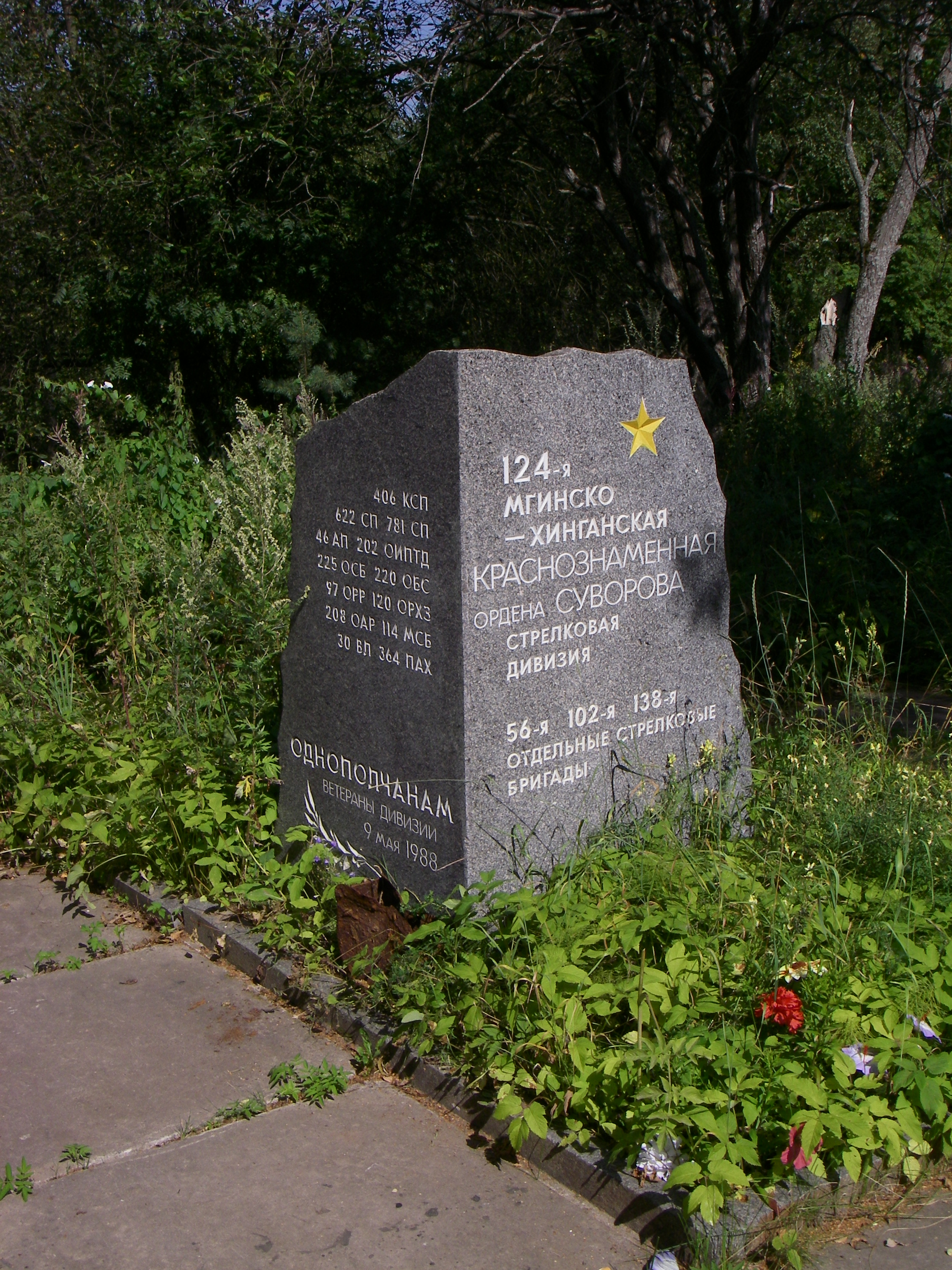 One of the Sinyavino Heights memorials